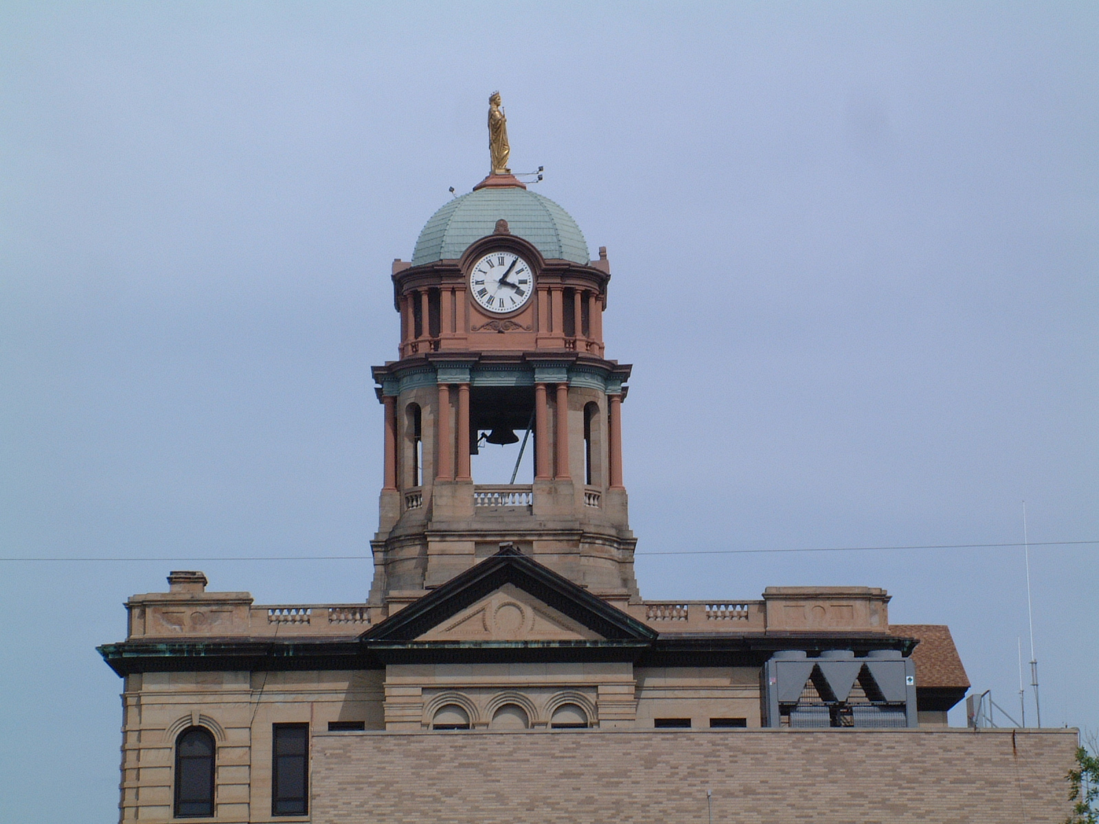 Top of the NRHP-listed Brown County Courthouse in Aberdeen, South Dakota.